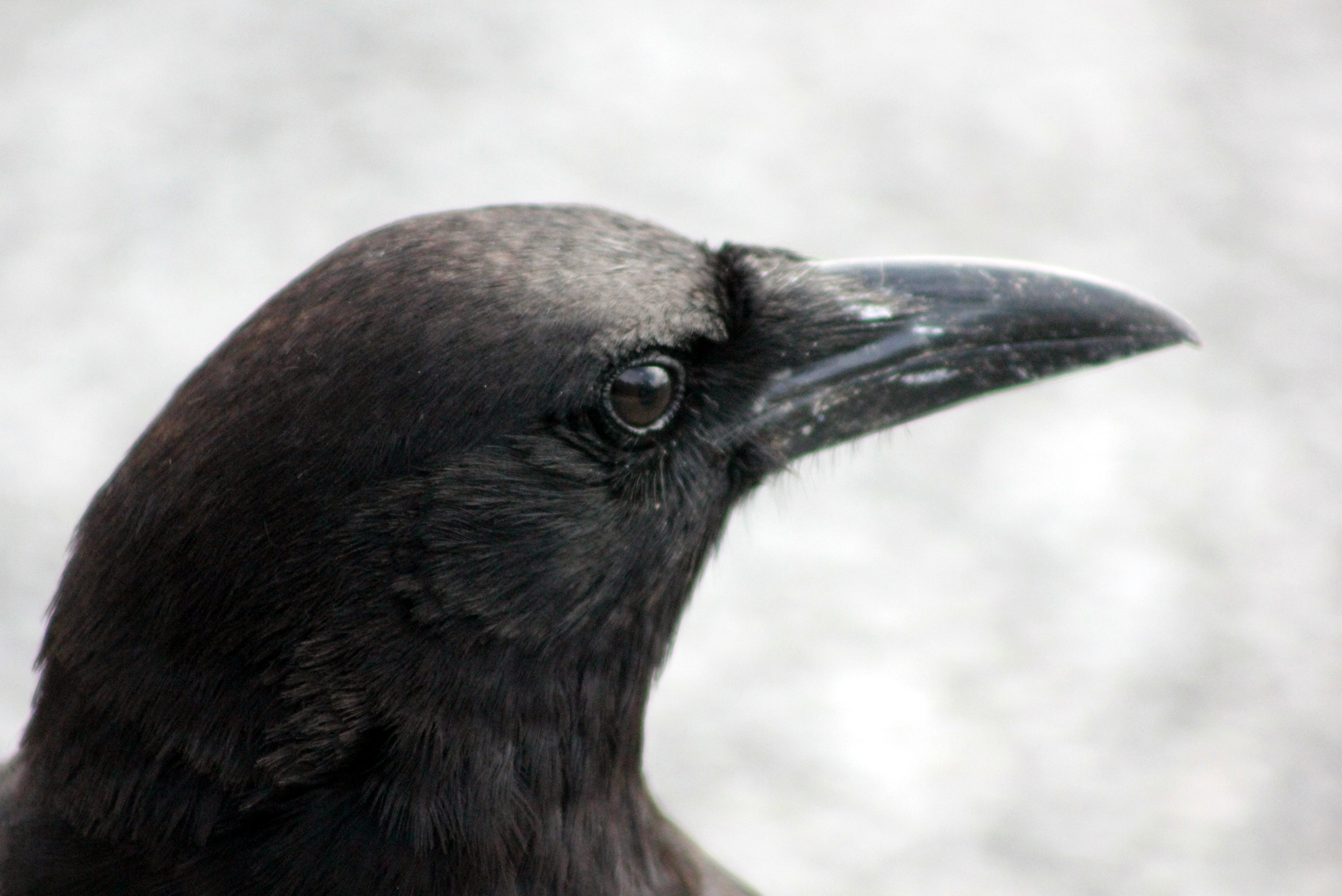 FIELD MARKS-black,iridescent plumage overall long,heavy,black bill brown eyes black legs and feet